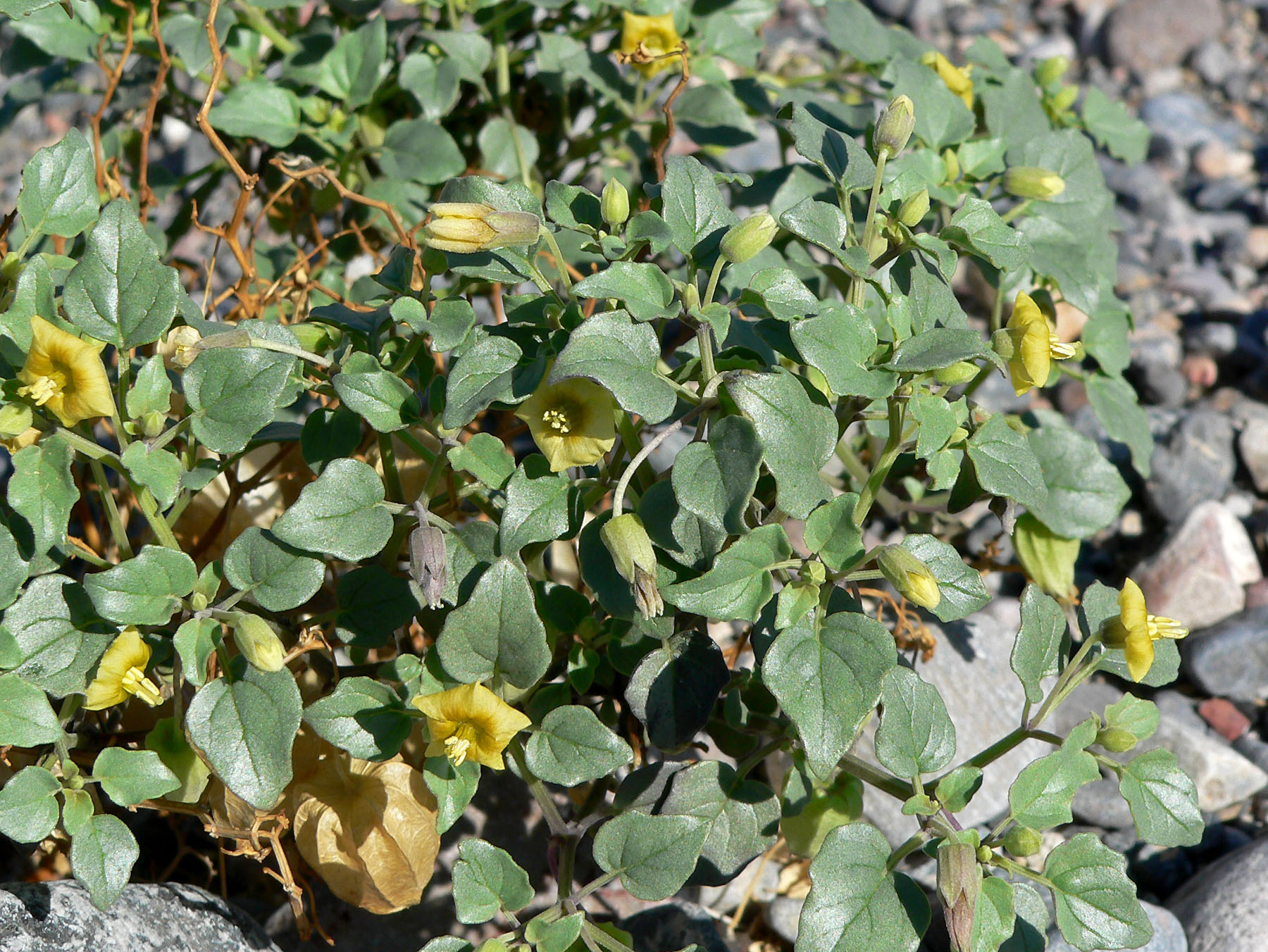 Physalis crassifolia in Furnace Creek Wash, Death Valley, California